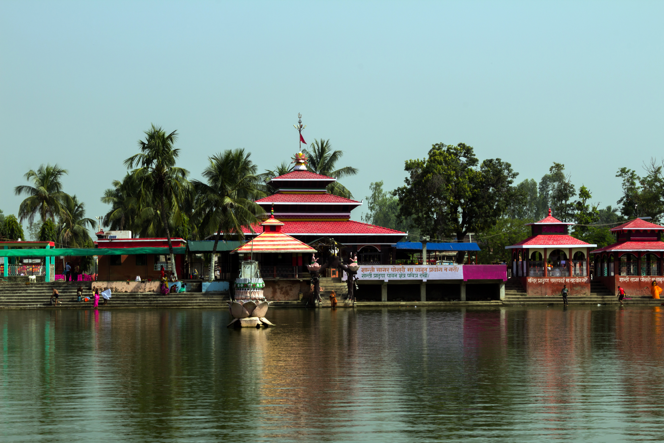 Chinnamasta Temple Rajbiraj Saptari